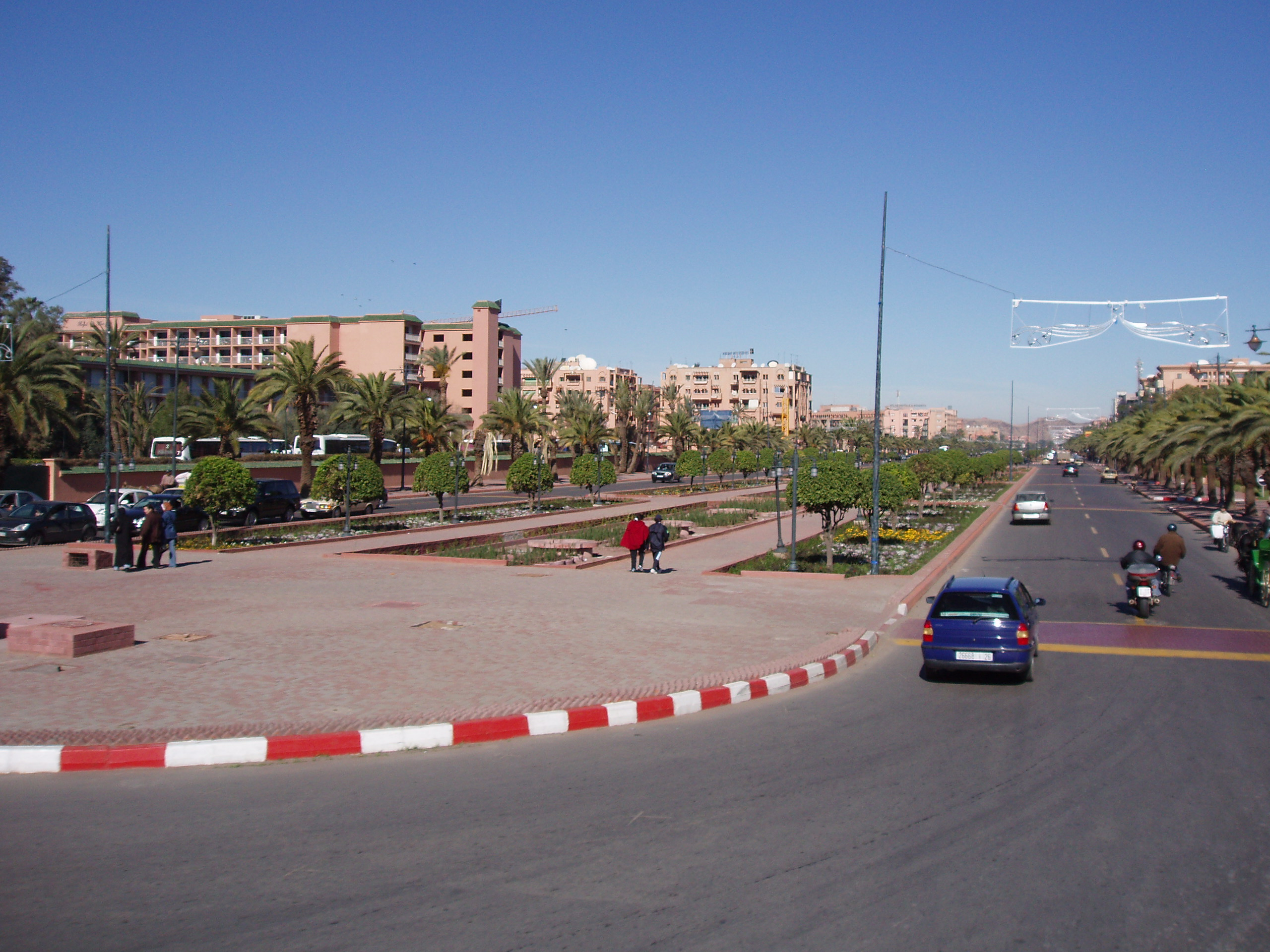 Marrakech (new distric), Av. Mohammed VI - near Atlas Asni Hotel